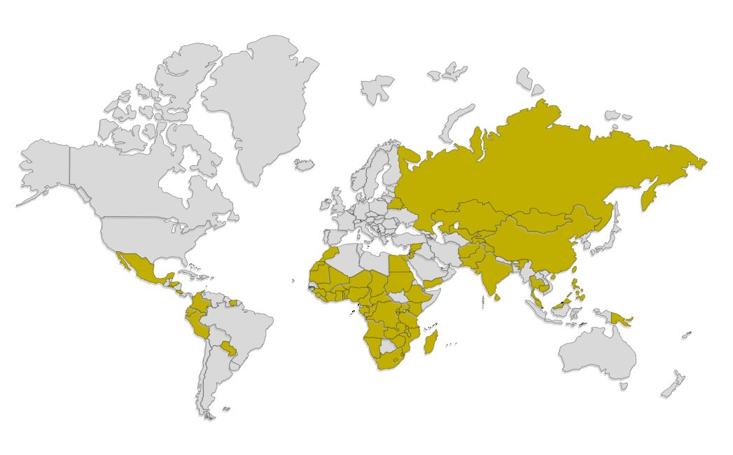 Countries with AFI members